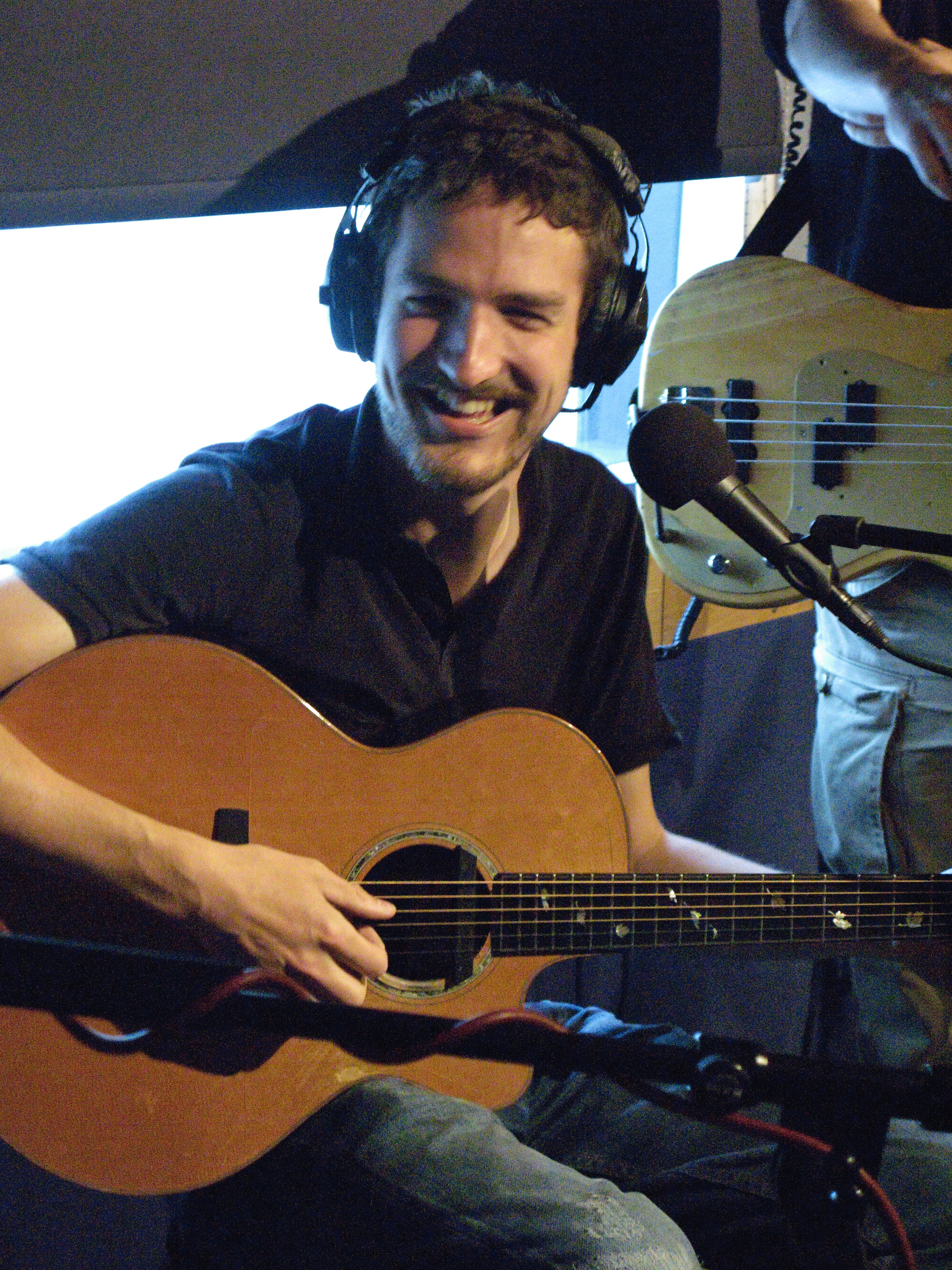 Frank Turner at an XFM radio session in London.